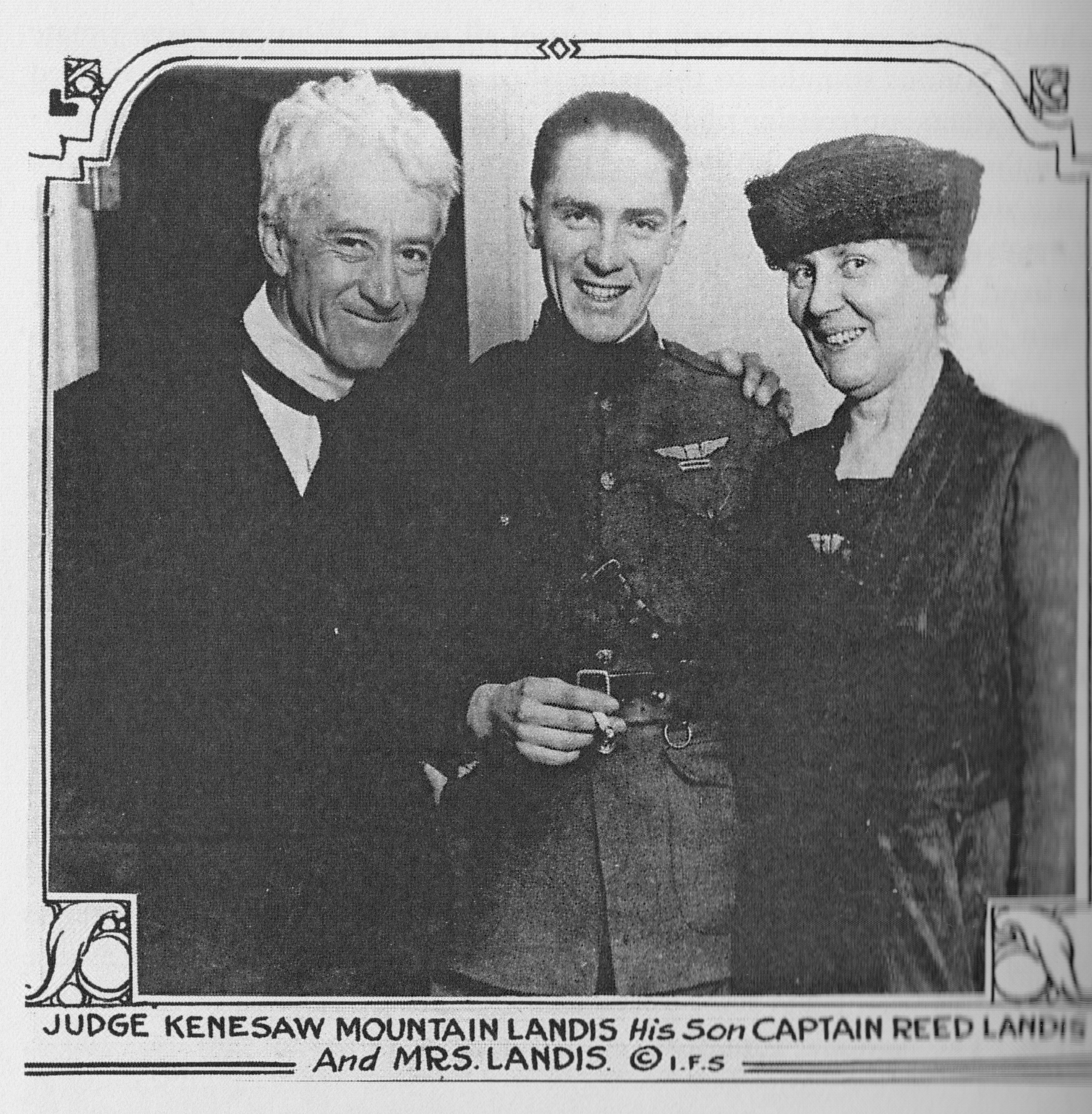 Judge Kenesaw Mountain Landis, his wife Winifred Landis, and their son Reed G. Landis: This photograph was published as early as in the New York Herald (February 15, 1919).[1]